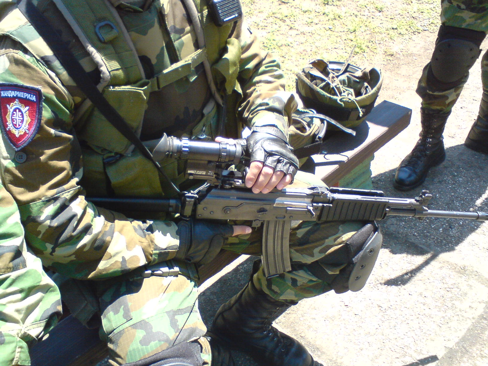 М21 rifle of Serbian Gendarmerie